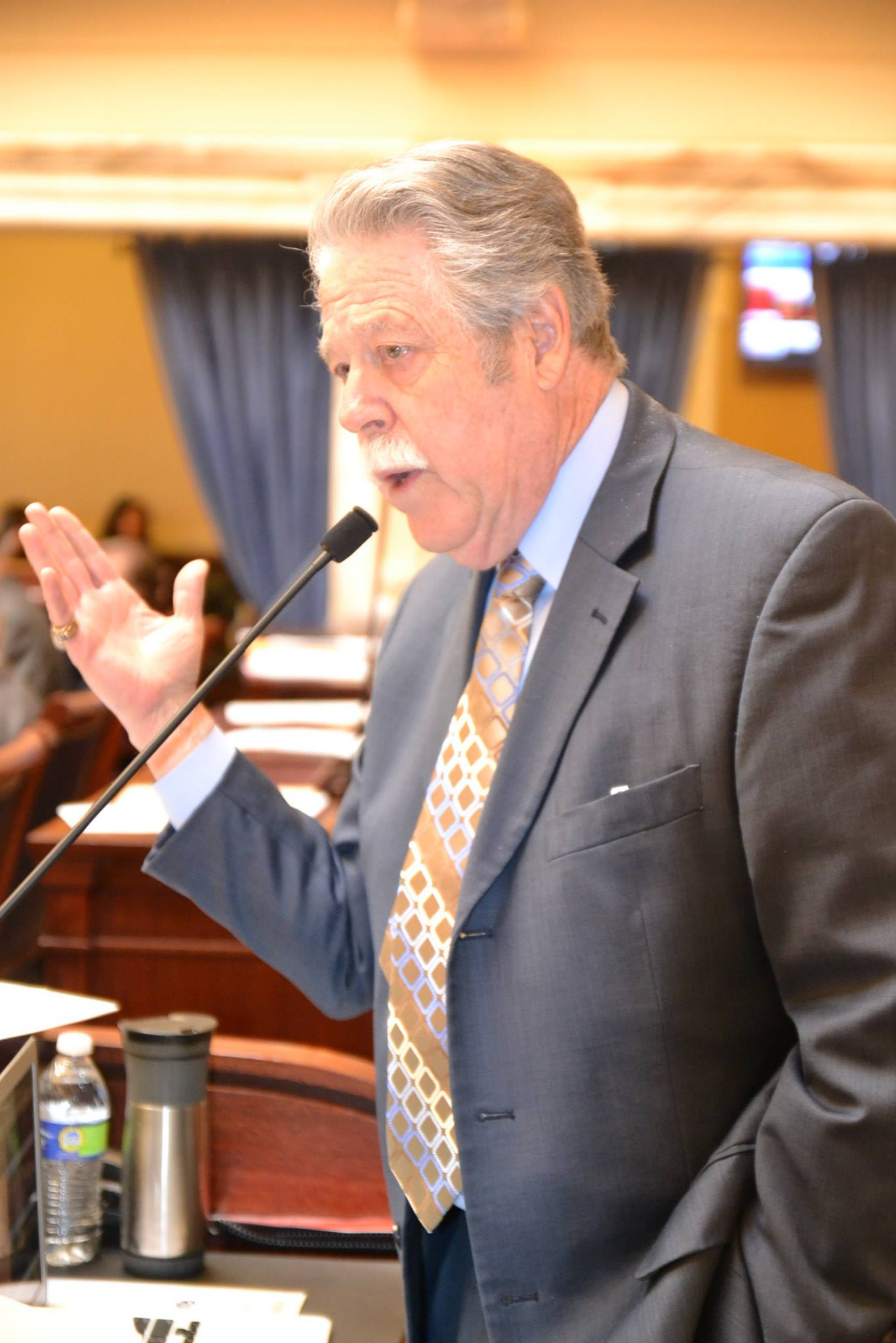 Senator Gene Davis